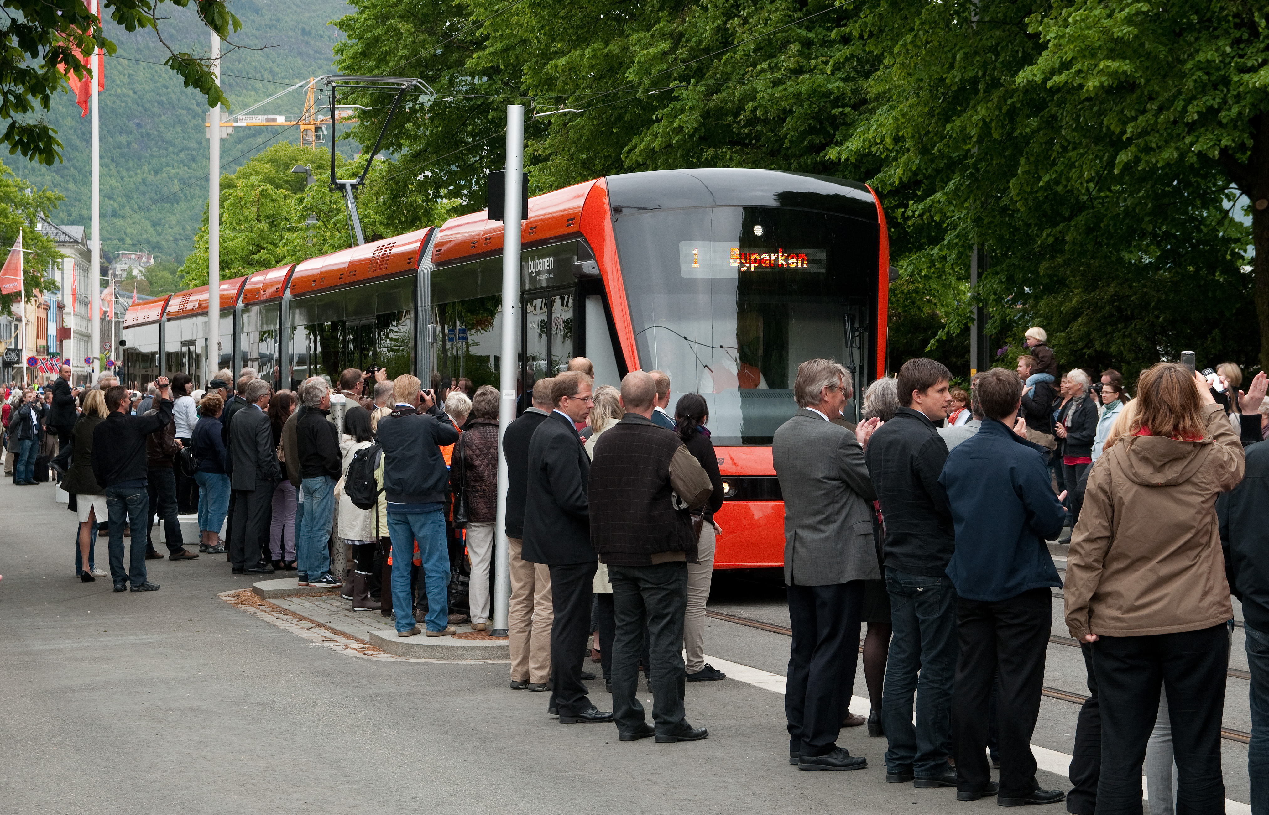 First Bergen Light Rail vehicle carrying the Queen of Norway and a variety of other officials, on the opening day, June 22, 2010.